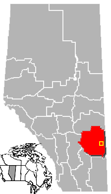 Location of Oyen, Census Division No. 4, Albera